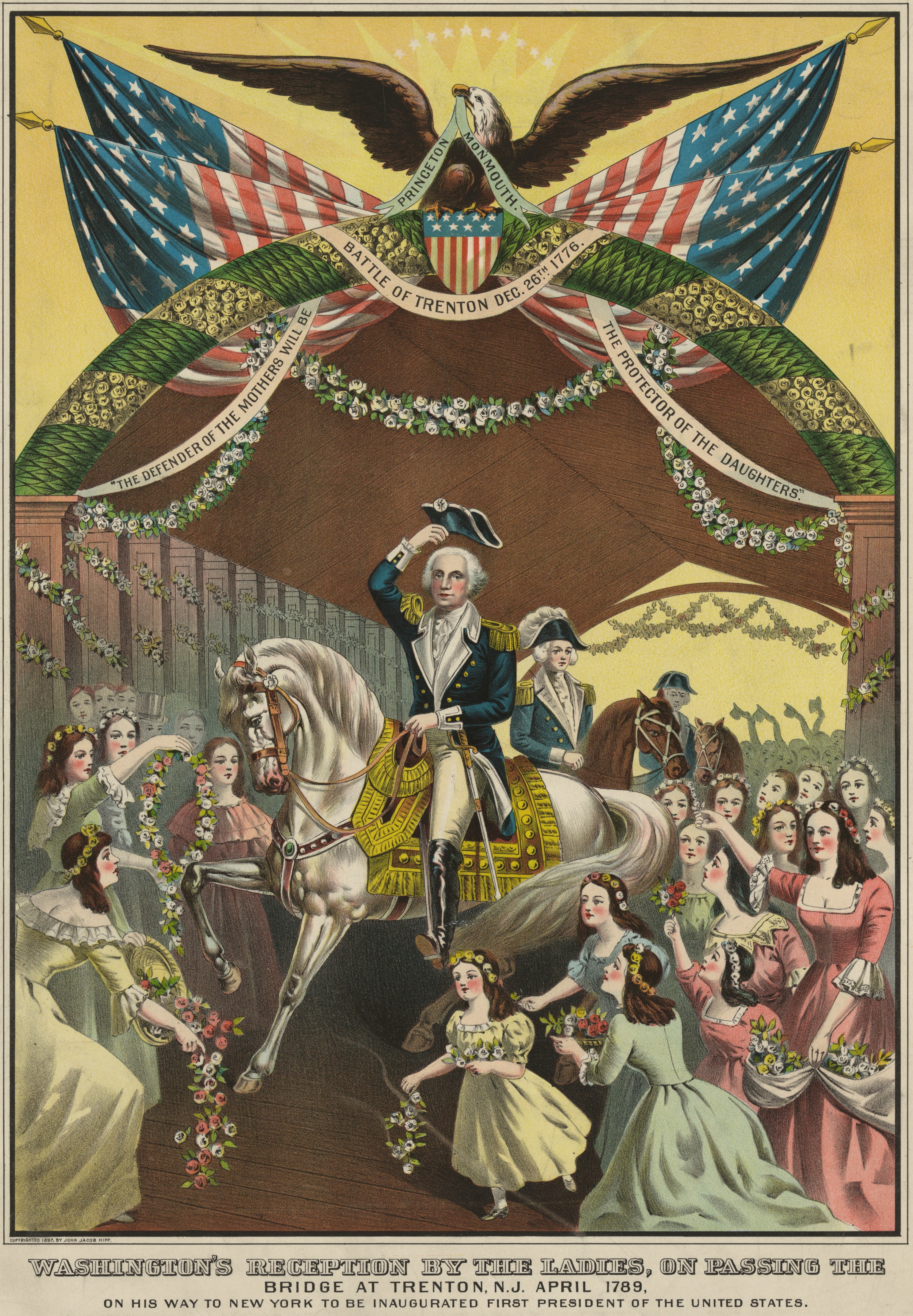 Title: Washington's reception by the ladies, on passing the bridge at Trenton, N.J. April 1789, on his way to New York to be inaugurated first president of the United States Physical description: 1 print : chromolithograph. Notes: Copyrighted 1897 by John Jacob Hipp.; Exhibited in: "Creating the United States" at the Library of Congress, Washington, D.C., 2010. Depicts George Washington's reception at Trenton, New Jersey on April 21, 1789.